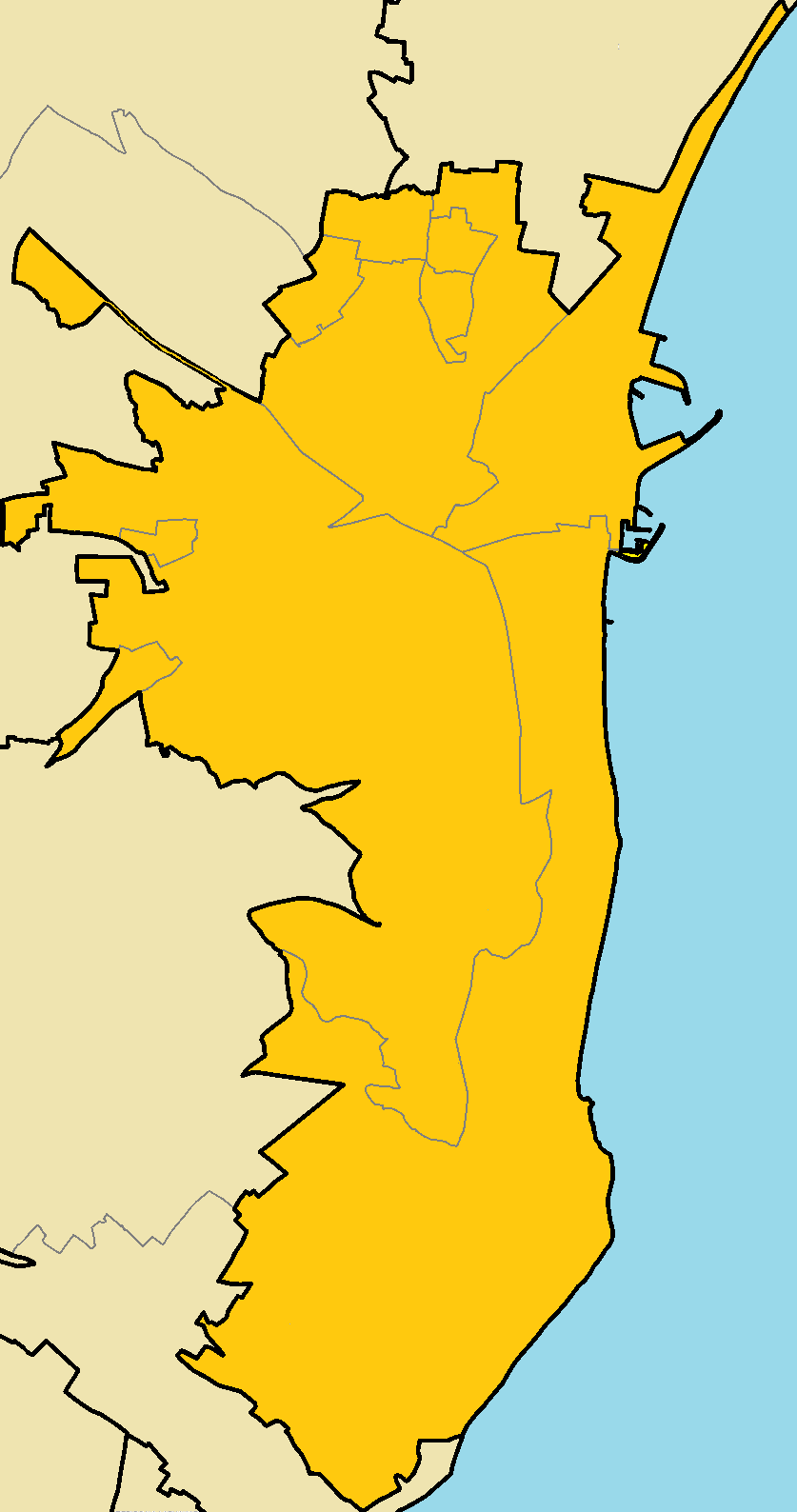 Larnaca Municipality with quarters.